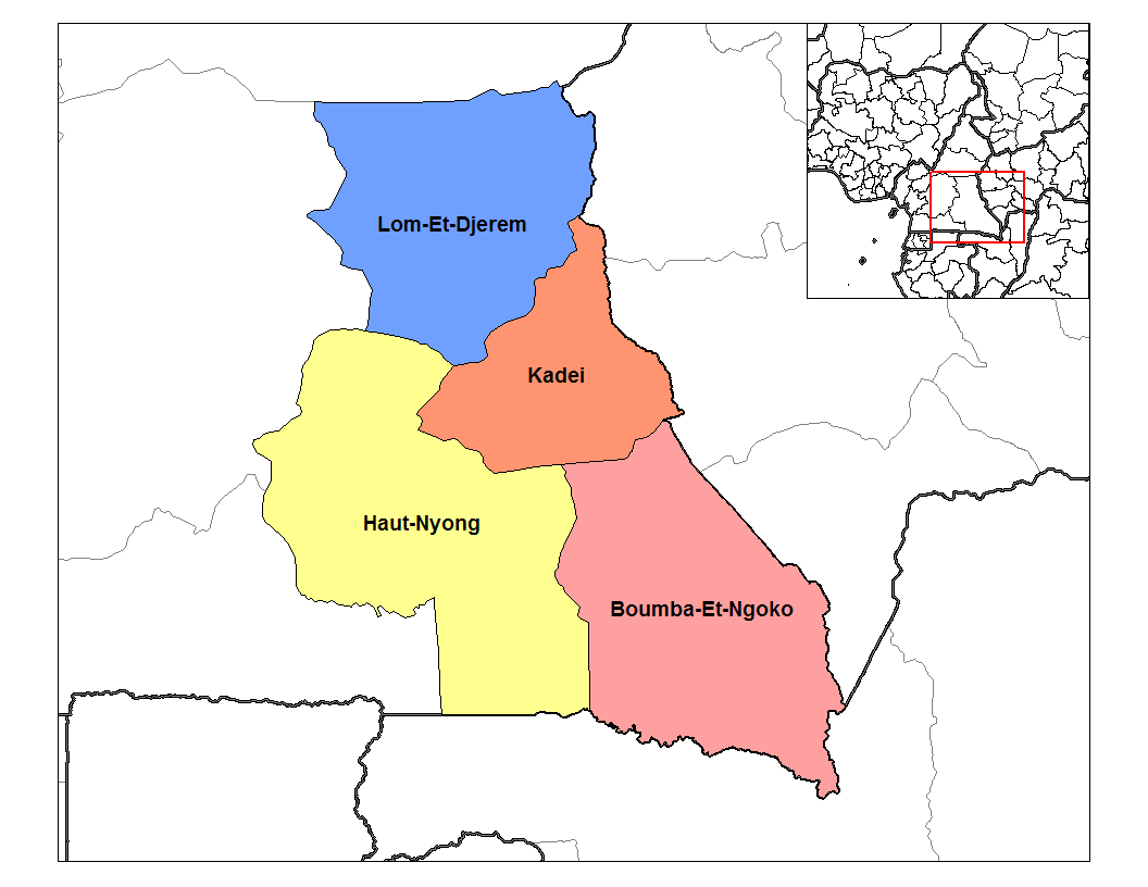 Map of the divisions of East province in Cameroon. Created by Rarelibra 19:54, 1 September 2006 (UTC) for public domain use, using MapInfo Professional v8.5 and various mapping resources.